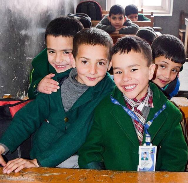 ethnic kashmiri children